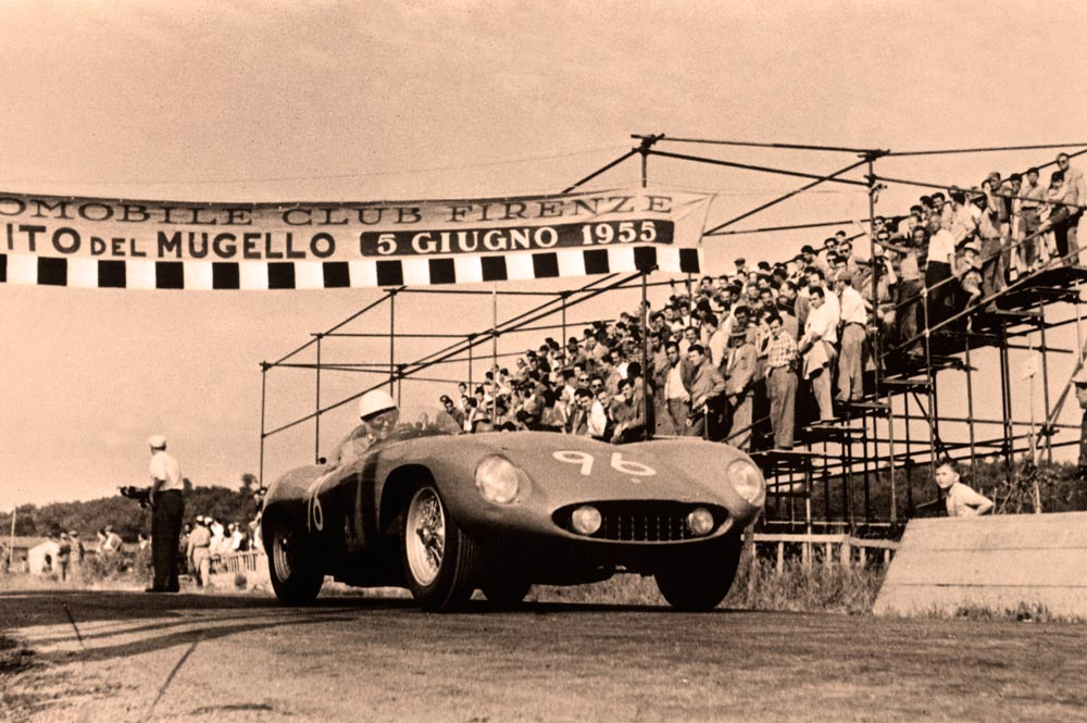 1955 Ferrari 500 Mondial Scaglietti s/n 0512MD driven at Circuito del Mugello on 5 June 1955 by its owner Mario Dalla Favera. He died in a racing accident with same car a few days later, car was wrecked and destroyed. [1]